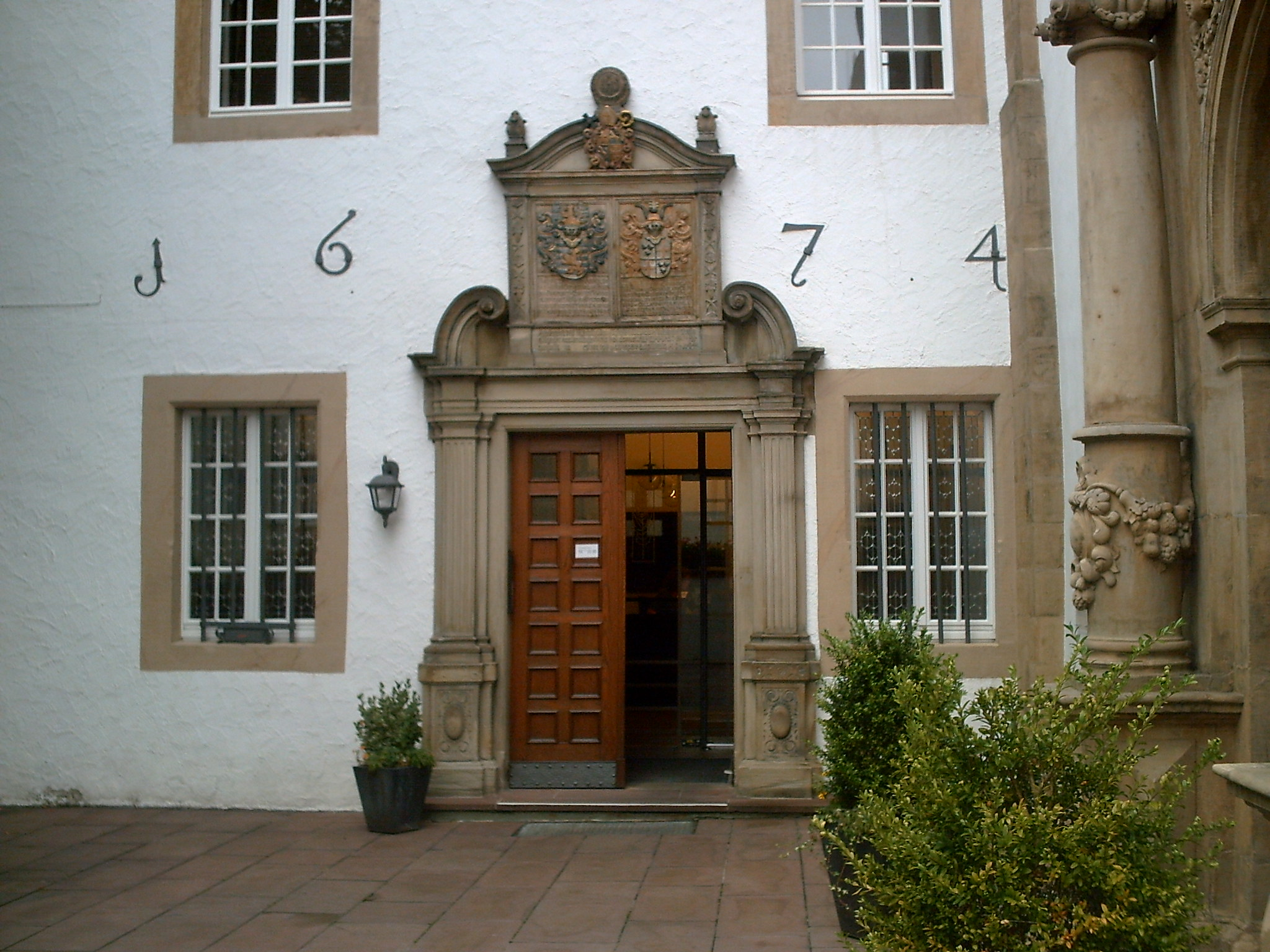 Collegium Liborianum in Paderborn, Germany